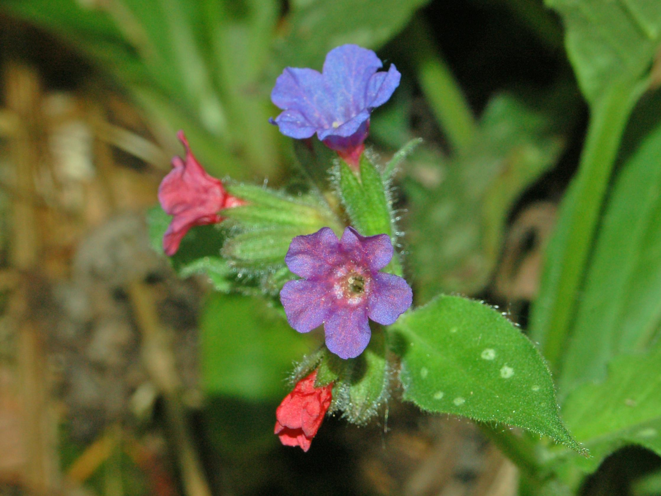 Pulmonaria officinalis - Val Noci, Genova, Italy